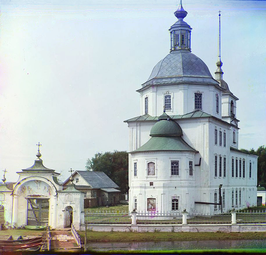 The Nativity of Christ Church in Krokhino, Photo by Prokudin-Gorsky, July 1909